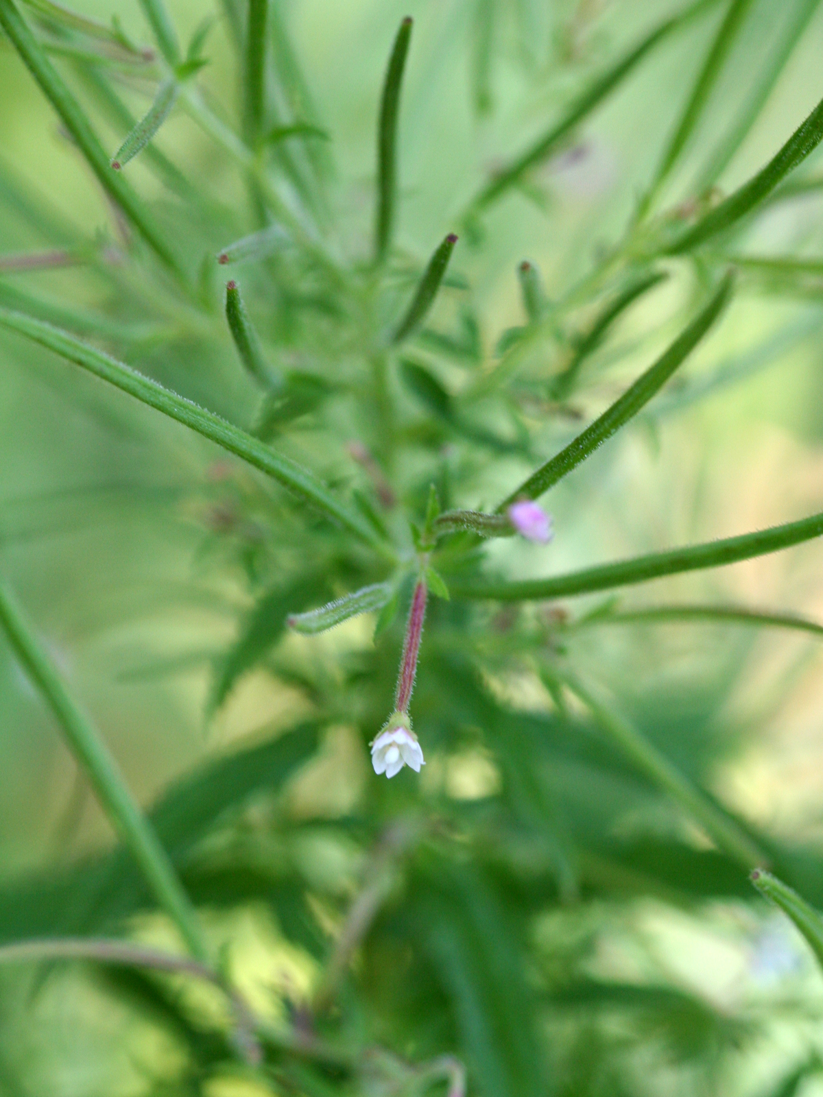 Epilobium ciliatum photographed in the town of Skaneateles NY